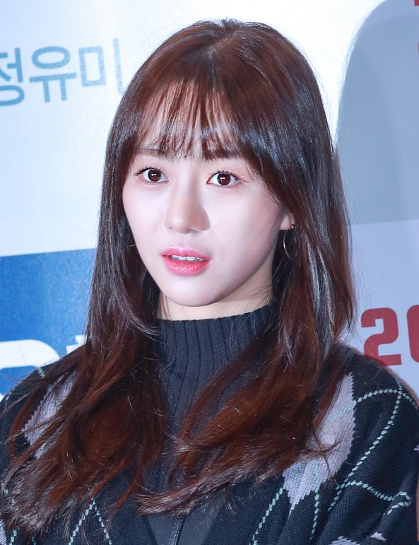 Kwon Mina at "Psychokinesis" VIP premiere, 29 January 2018